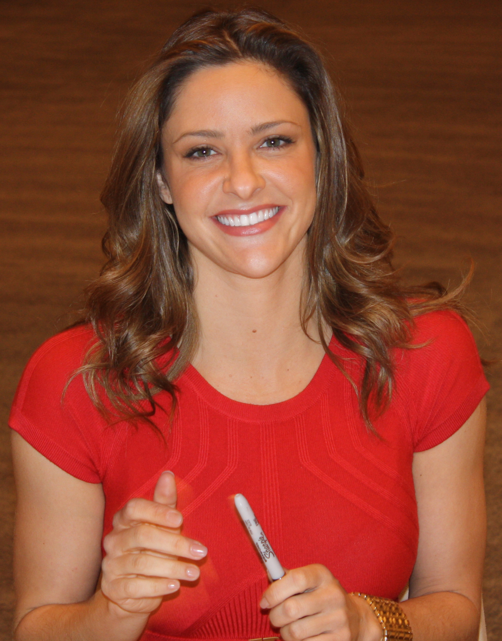 Jill Wagner at the 2010 St. Louis Auto Show.